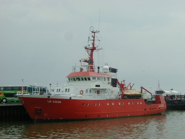 "VICTOR HENSEN", IMO No. 7360655. Research vessel.